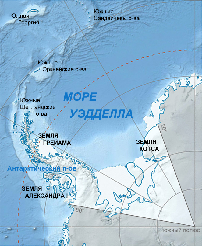 Map of the Falkland Islands Dependencies (in Russian)